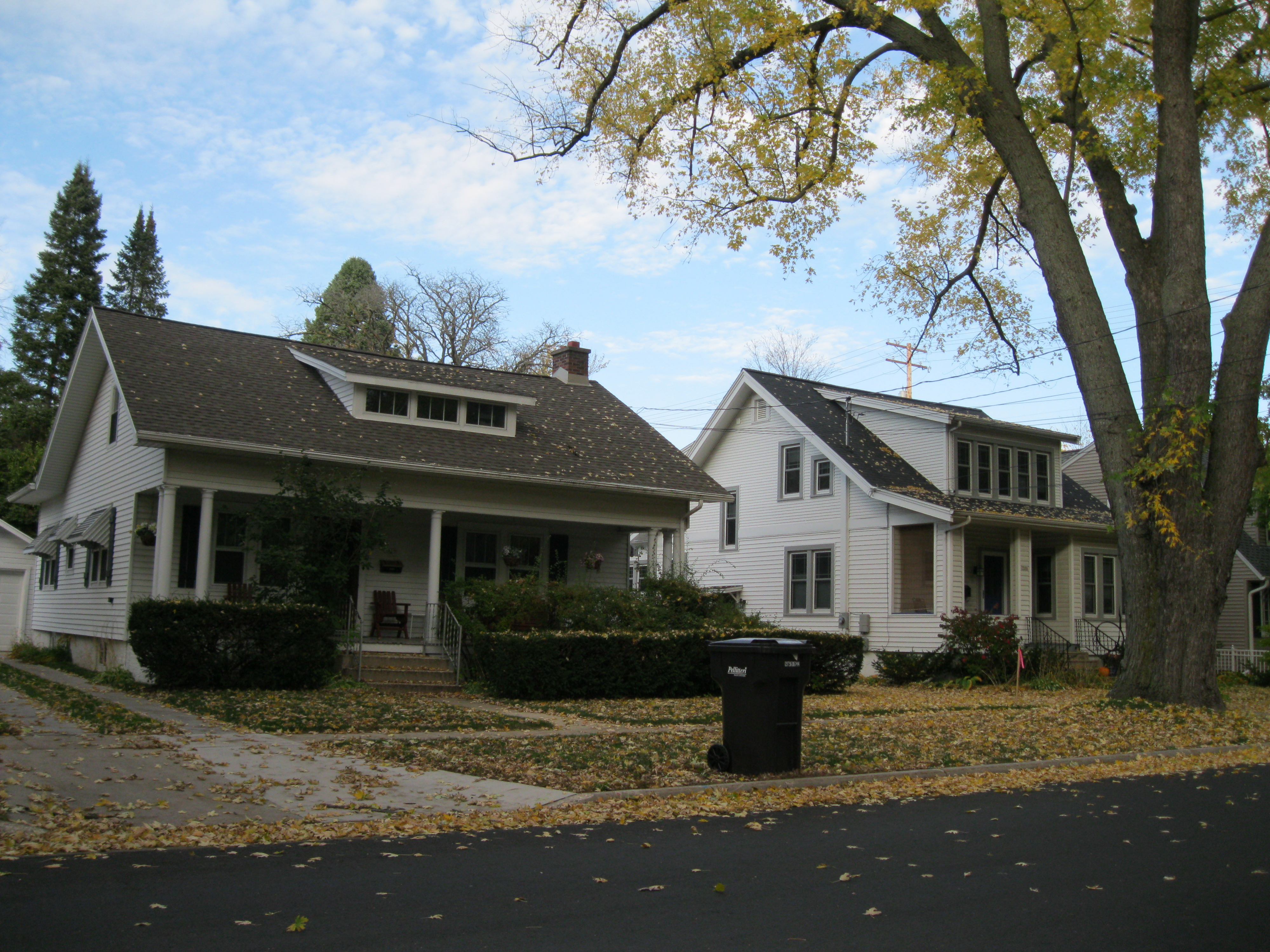 Houses at 7006 and 7010 Hubbard Avenue in the East End Historic District in Middleton, Wisconsin.